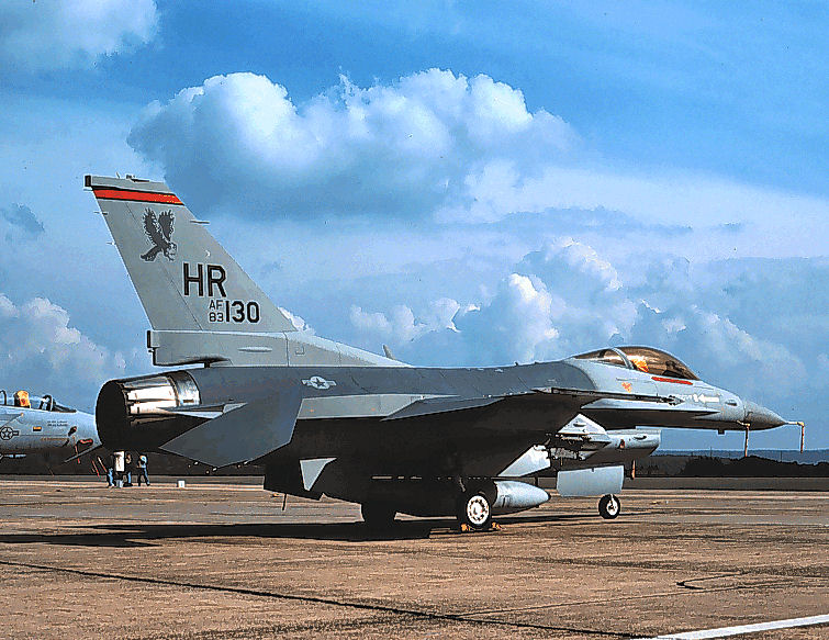 313th Tactical Fighter Squadron - General Dynamics F-16C Block 25A Fighting Falcon - 83-1130